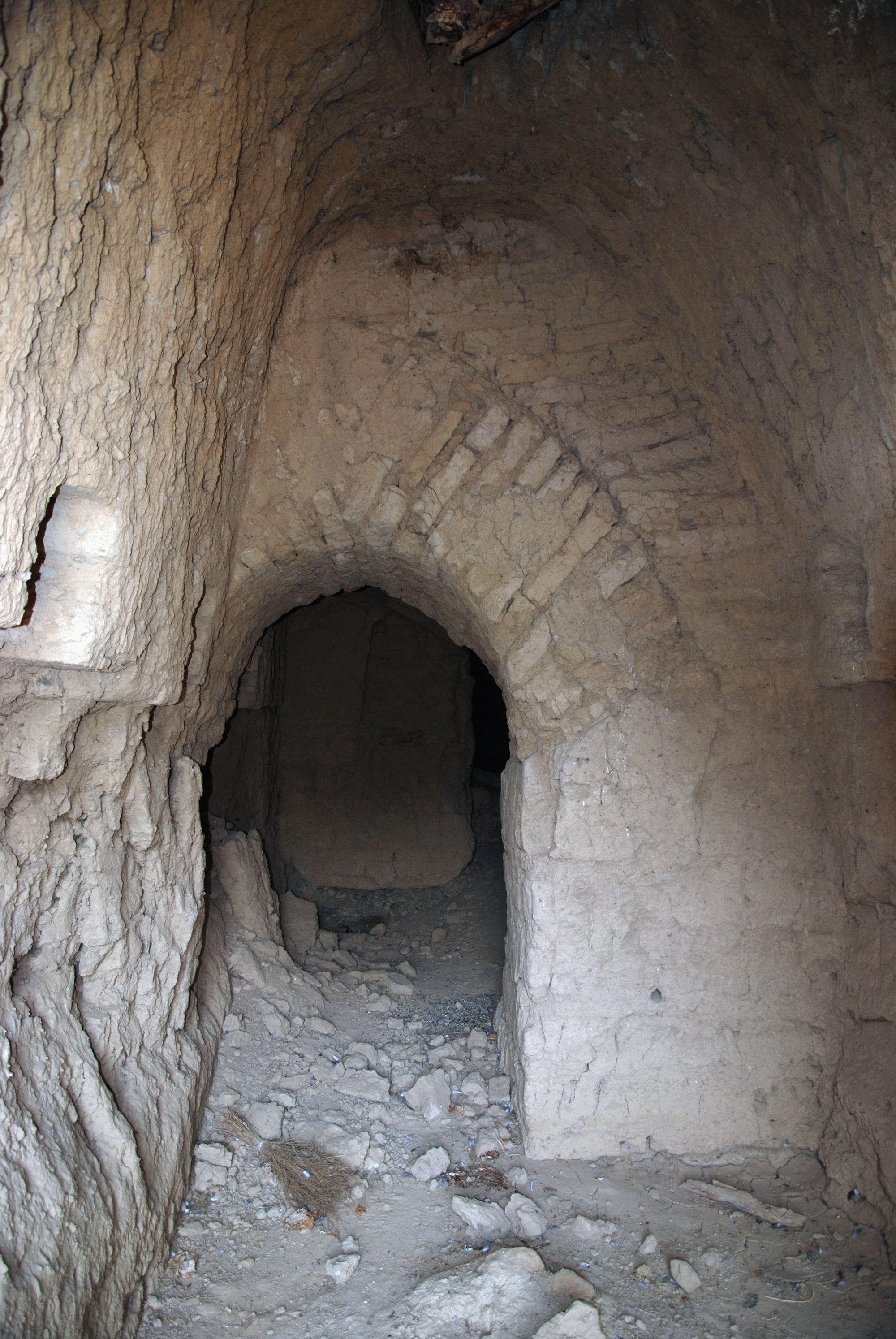 Jarkutan, Sughd province, Chilhujra, ground floor